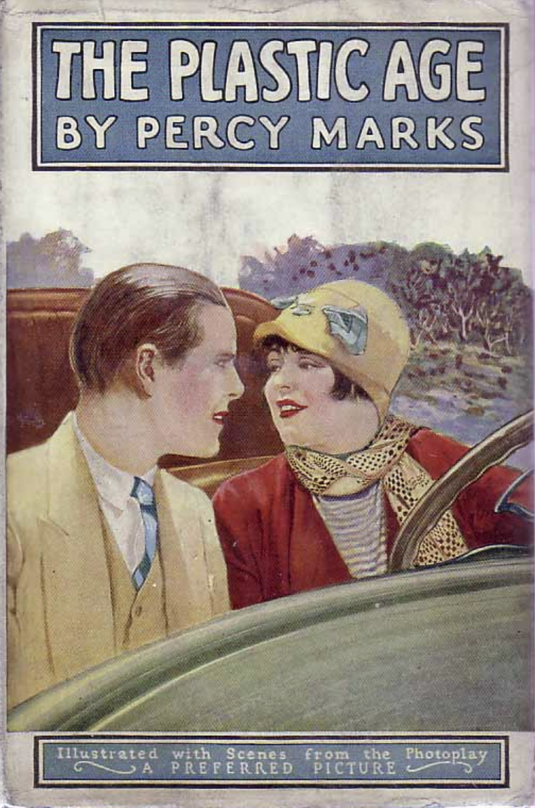 First edition of The Plastic Age, 1924. Reproduction of a public domain cover